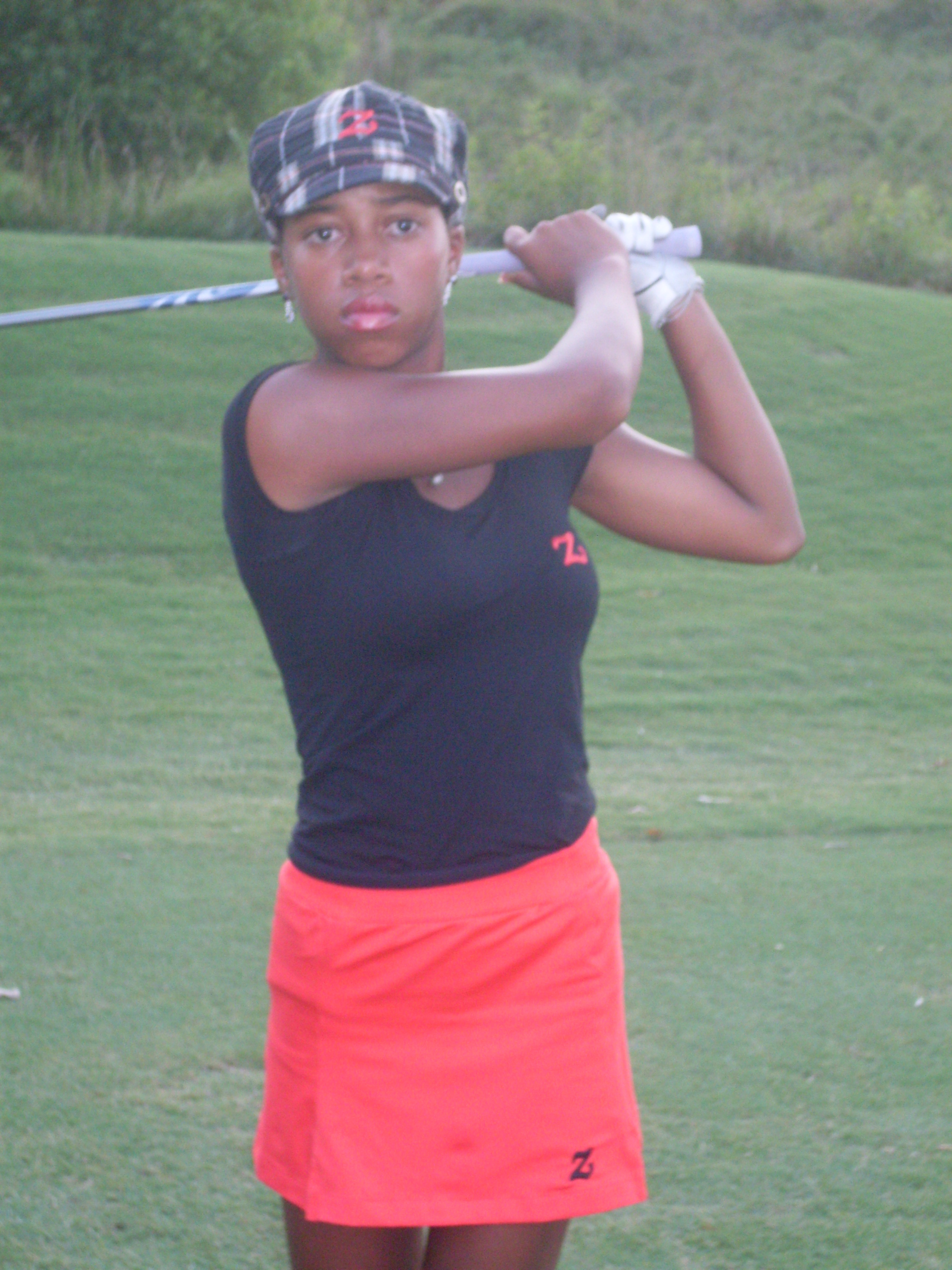 Zakiya Randall Golf Sensation on the Tee.